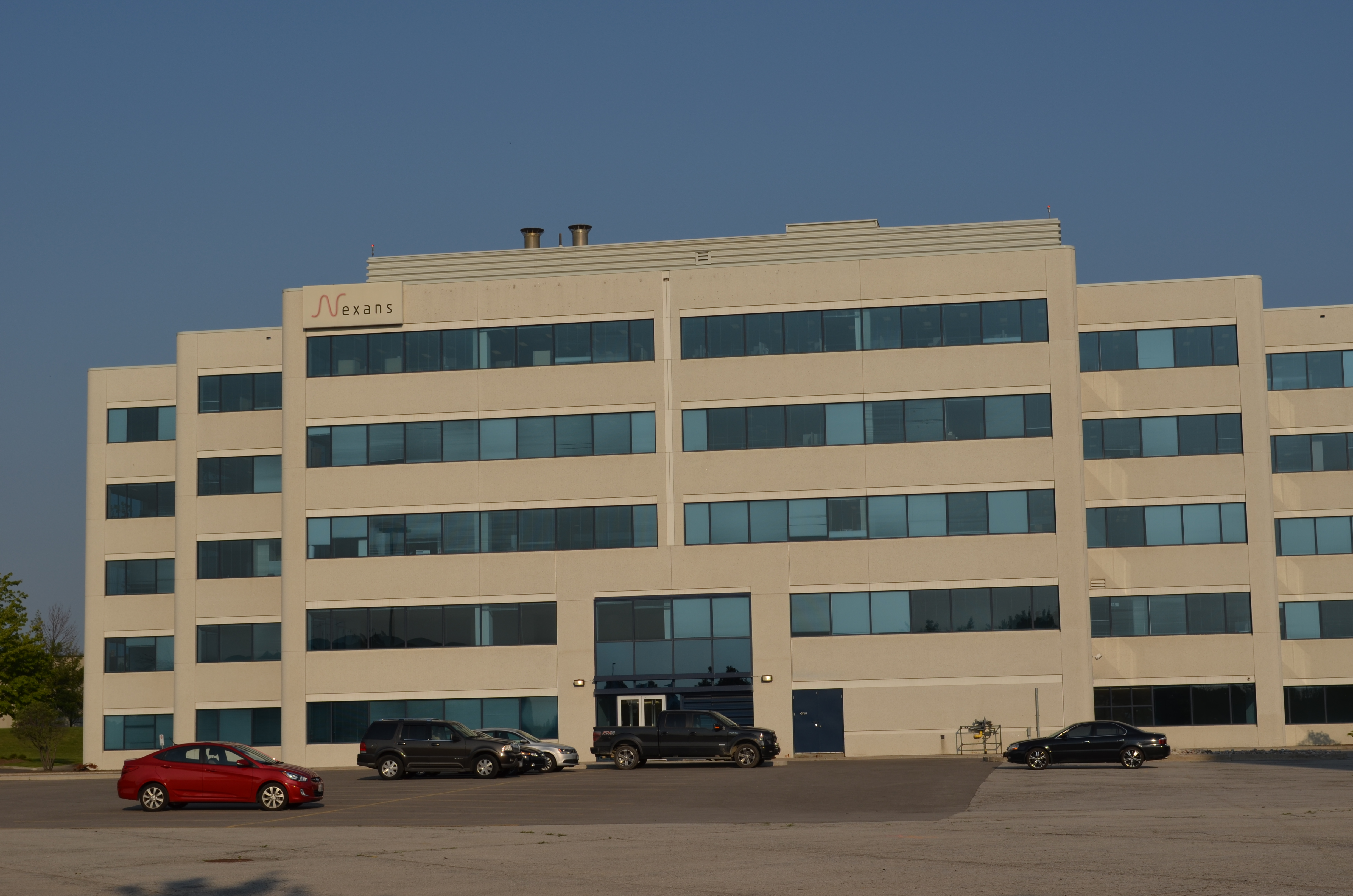 Nexans Canada